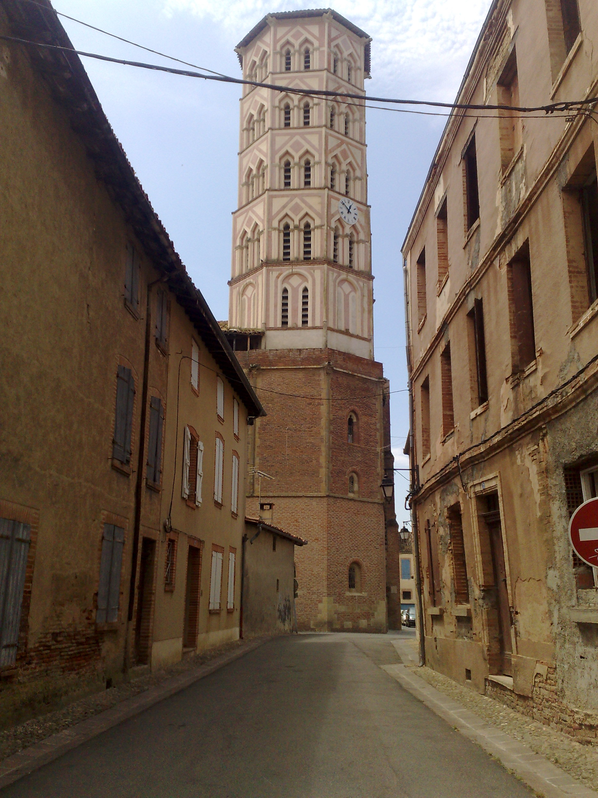 St. Mary's Cathedral, Lombez, Gers, France